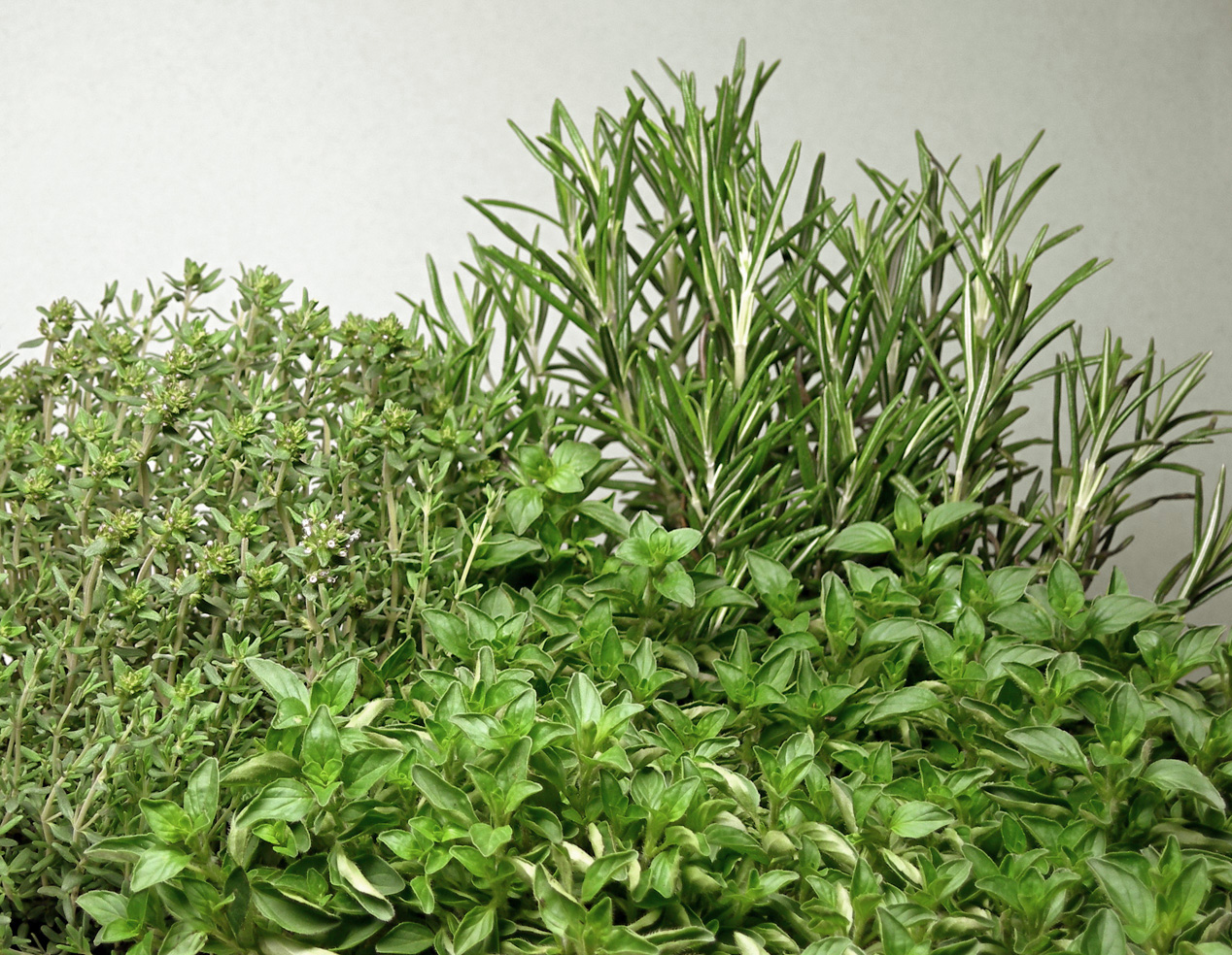 Herbs: Thyme, oregano and rosemary